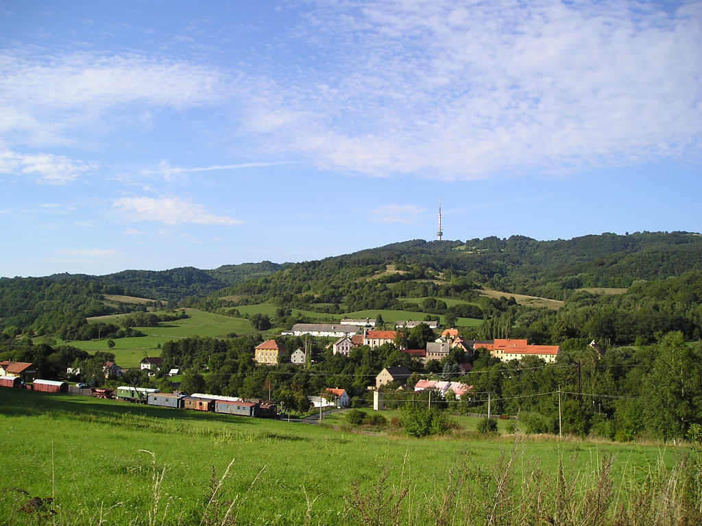 Village of Zubrnice (Ústí nad Labem District, Czech Republic) as seen from the south, from Týniště. Buková hora TV transmitter is visible on the horizon.